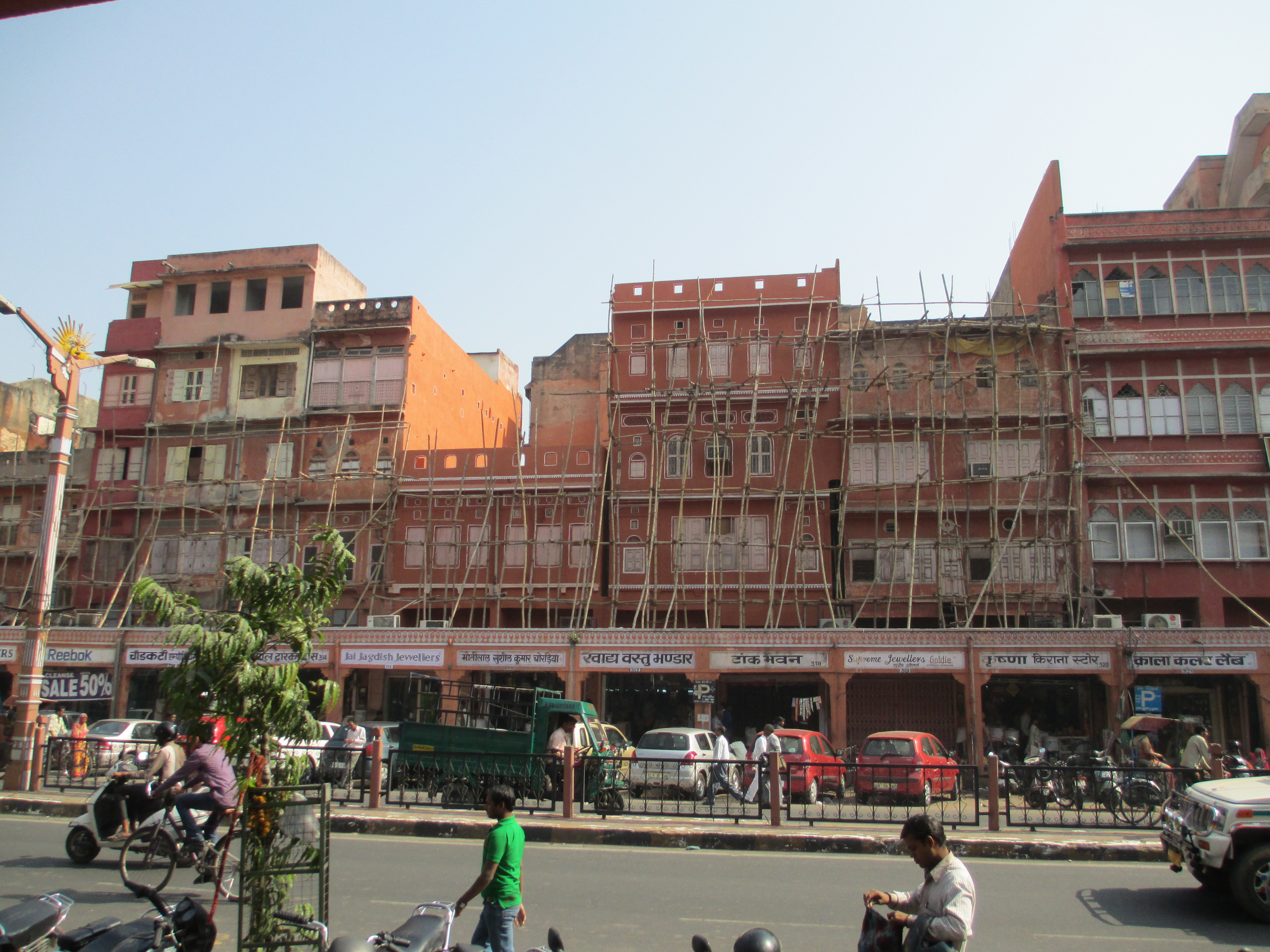 Downtown Jaipur, India